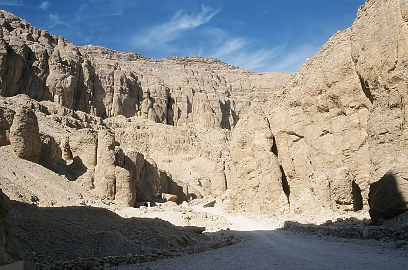 Entrance of the Tomb of Ay, KV 23, West Valley, Luxor West Bank, Egypt